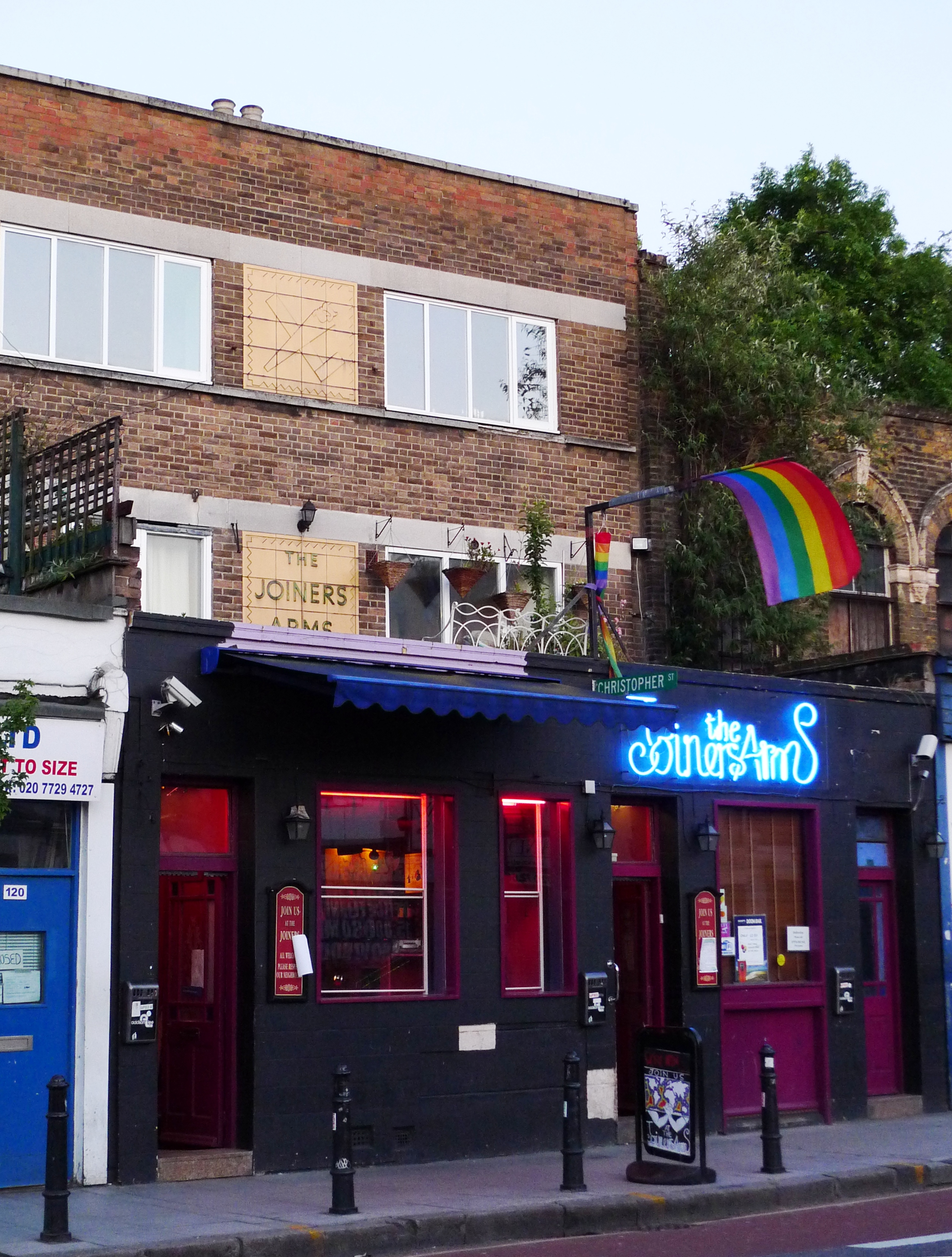 Looks every bit the Shoreditch pub. (Older photo of it.) Address: 118 Hackney Road. Owner: Enterprise Inns; Ascot (former); Watney Combe Reid (former). Links: Beer in the Evening Dead Pubs (history)